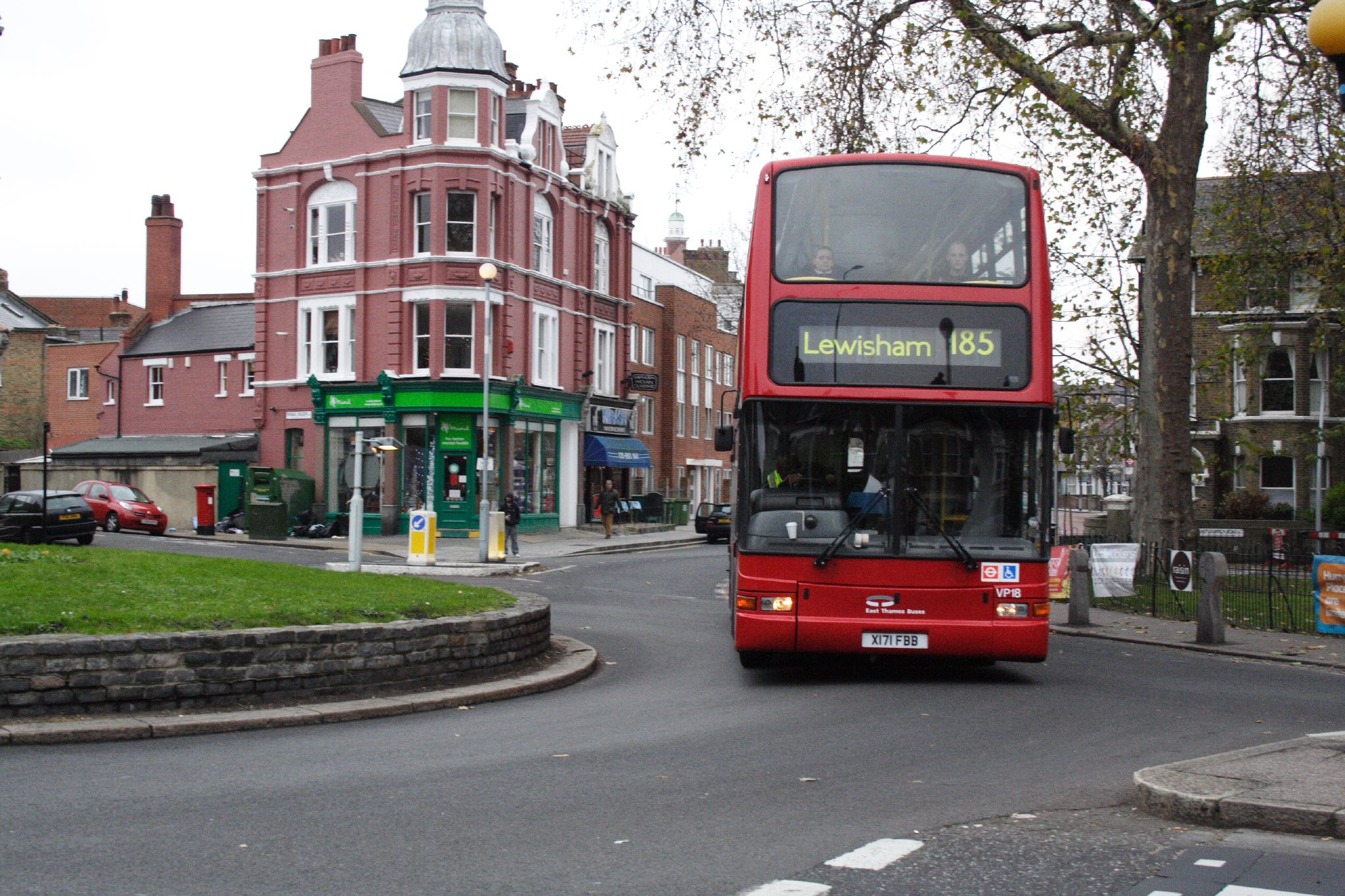 185 Plaxton President at Goose Green